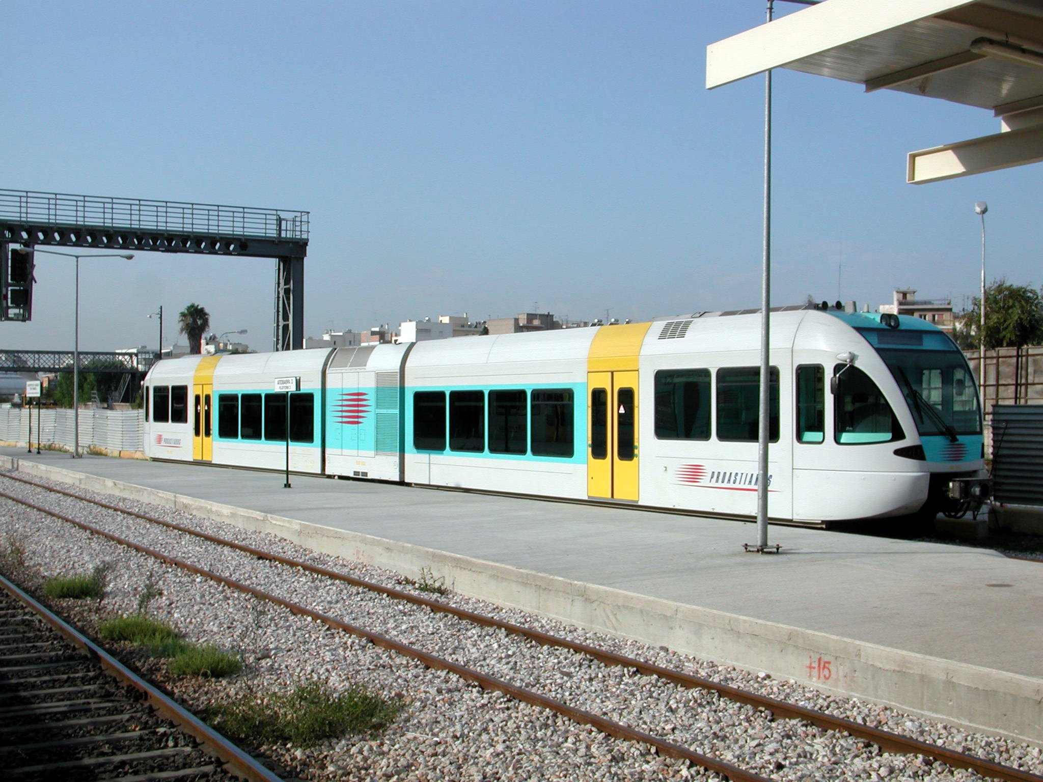 Proastiakos DMU train in Athens Central Railway Station